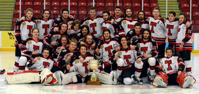 Picture of the Truro Jr. A Bearcats with the Kent Cup Captioned As {}